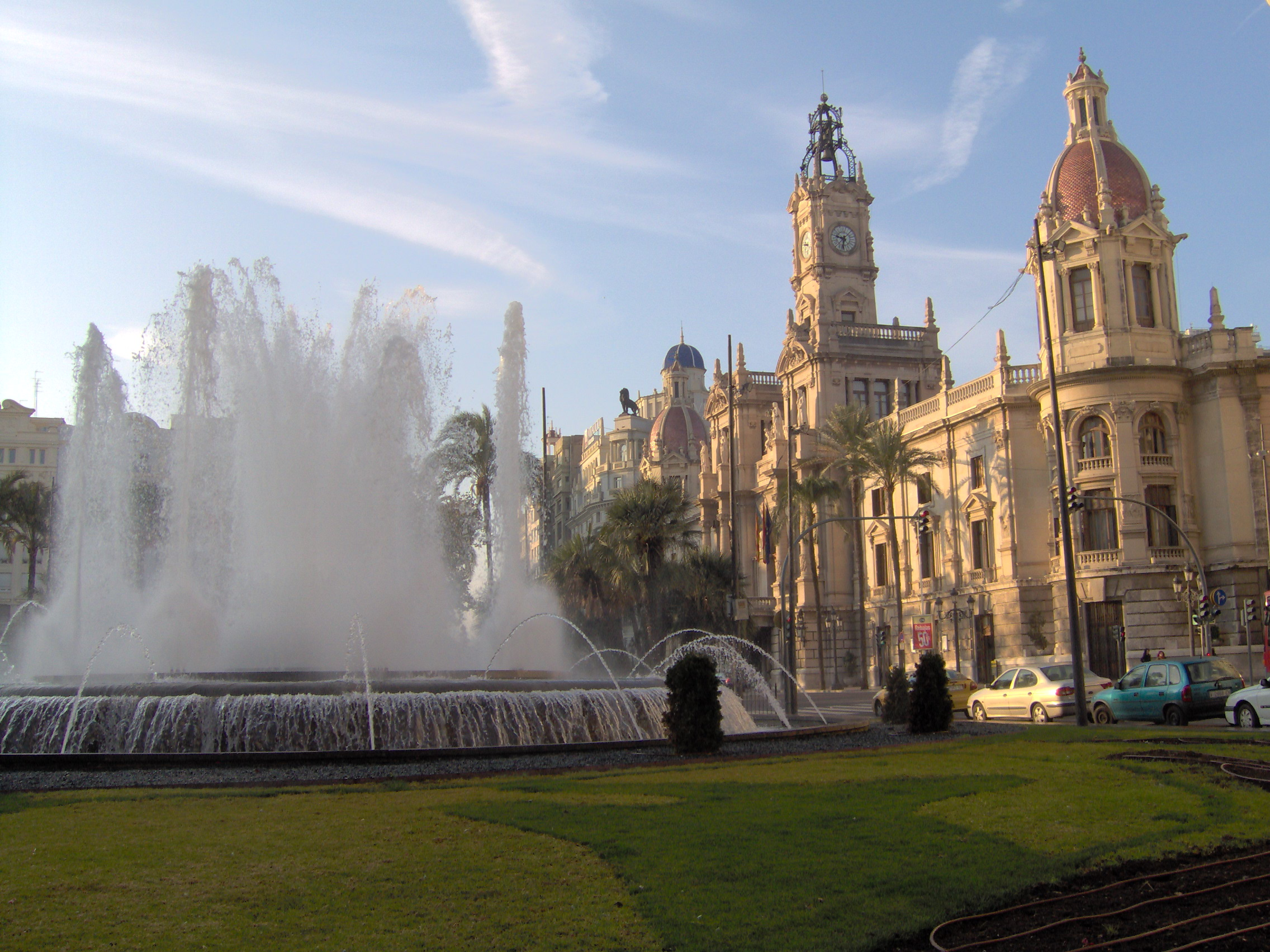 City Hall of València, Spain.